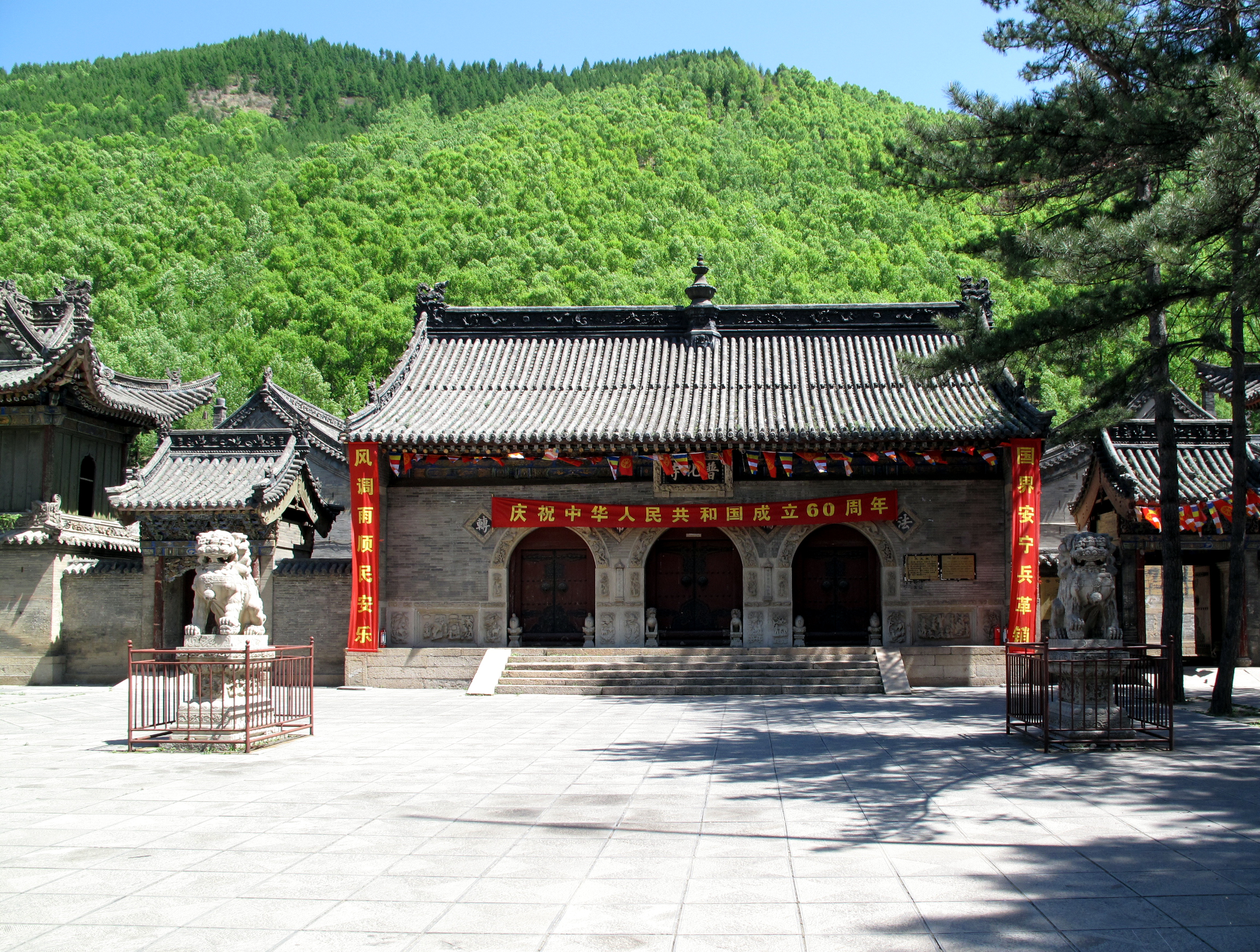 Puhua Si. Wutai Shan Puhua Si is a Ming Dynasty (1628-1644) temple that was destroyed in the 19th century and rebuilt in 1925. It was formerly called the Di Shi Palace.